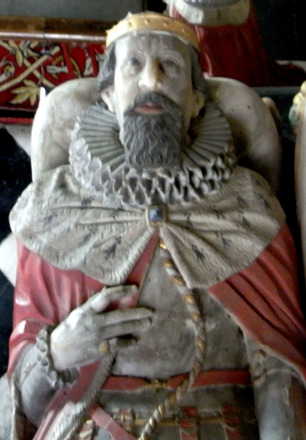 William Bourchier, 3rd Earl of Bath (d.1623; detail from his effigy, St Peter's Church, Tawstock, Devon